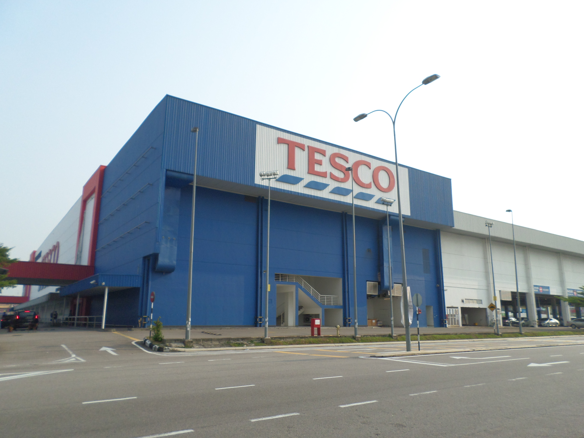 Tesco, Bukit Indah, Iskandar Puteri, Johor Bahru, Johor, MalaysiaBahasa Melayu: Tesco, Bukit Indah, Iskandar Puteri, Johor Bahru, Johor, Malaysia